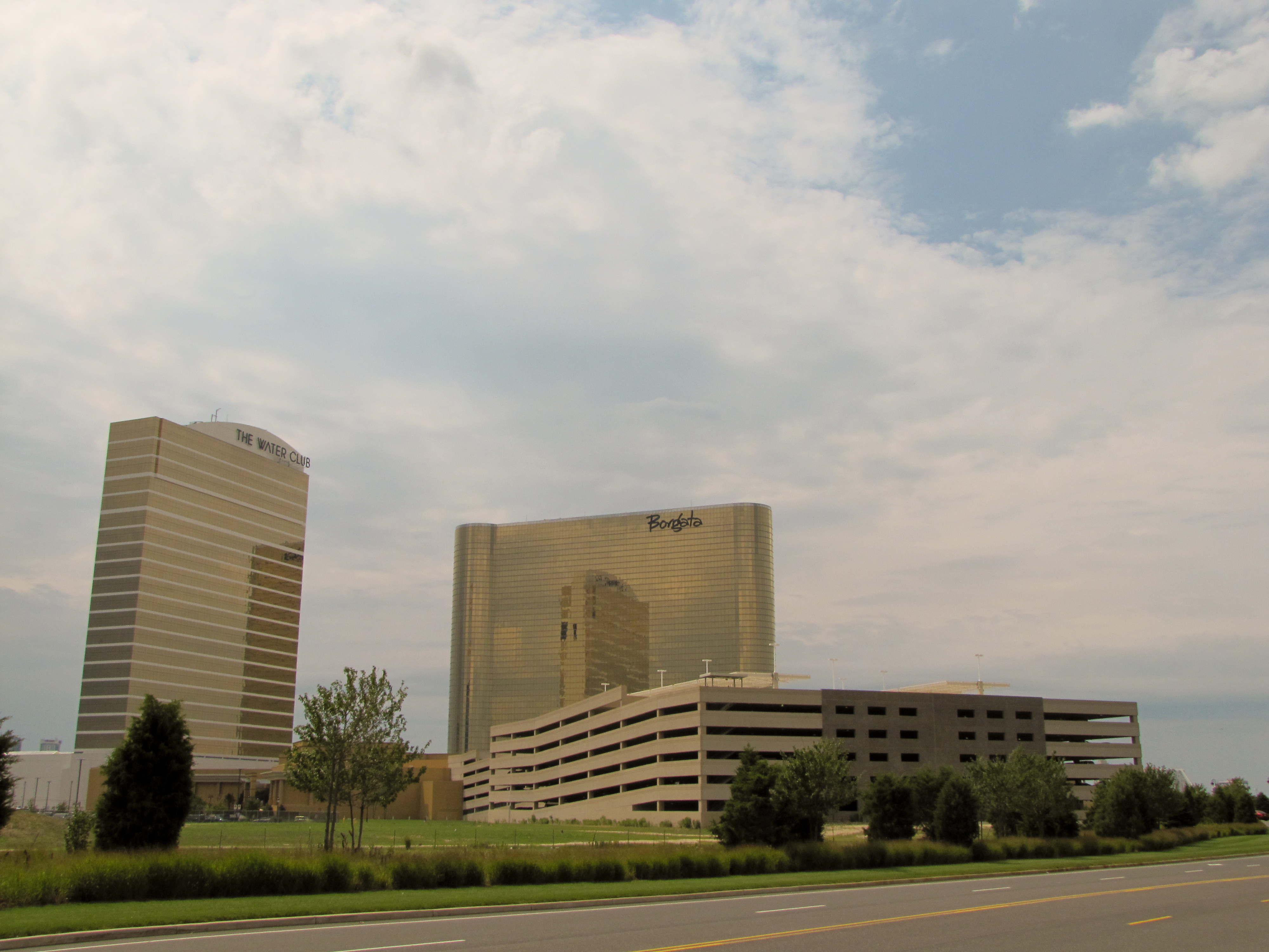 Borgata